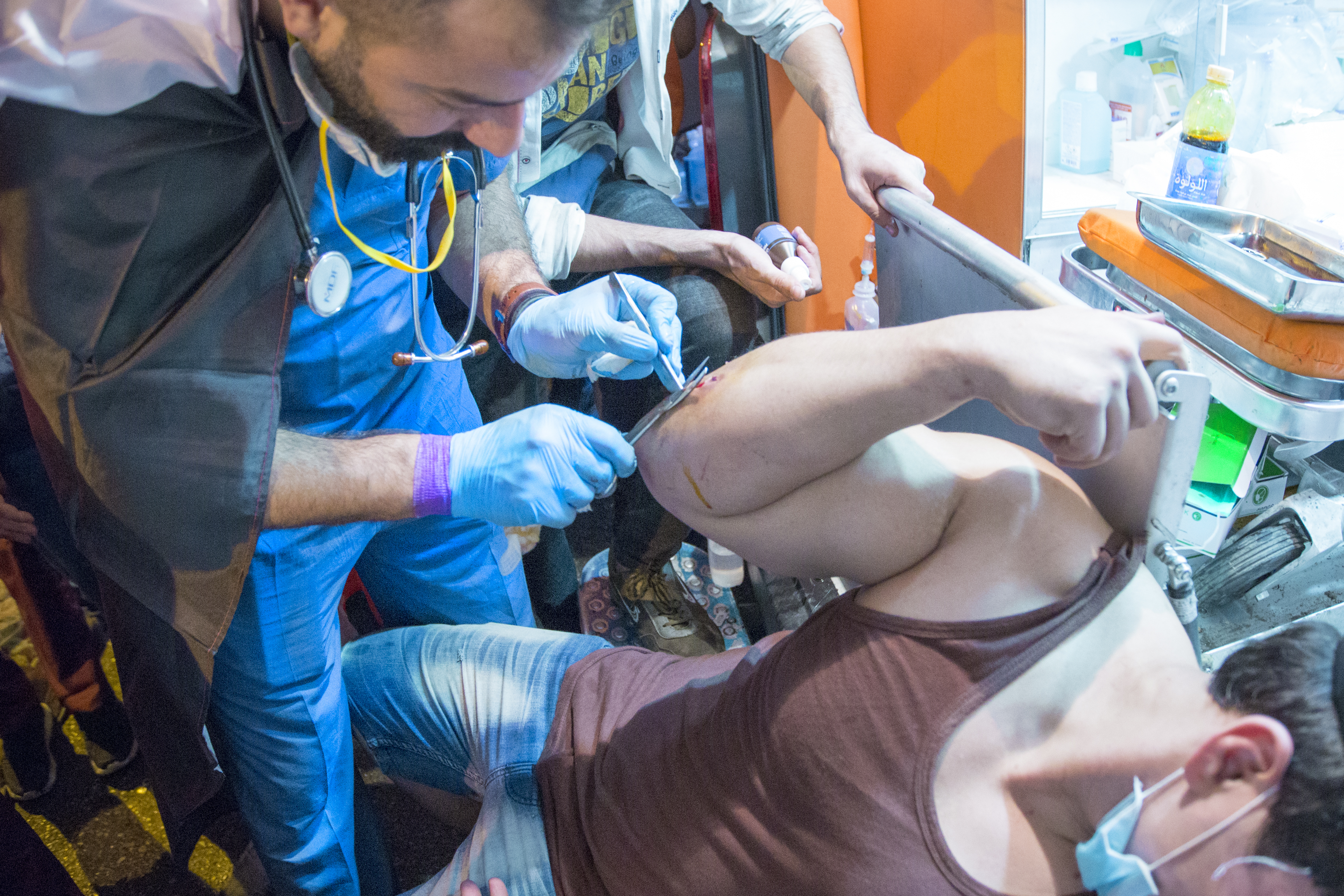 Teams of doctors and immediate ambulance are rushing to treat wounds and extract bullets with minor operations in the land of liberation